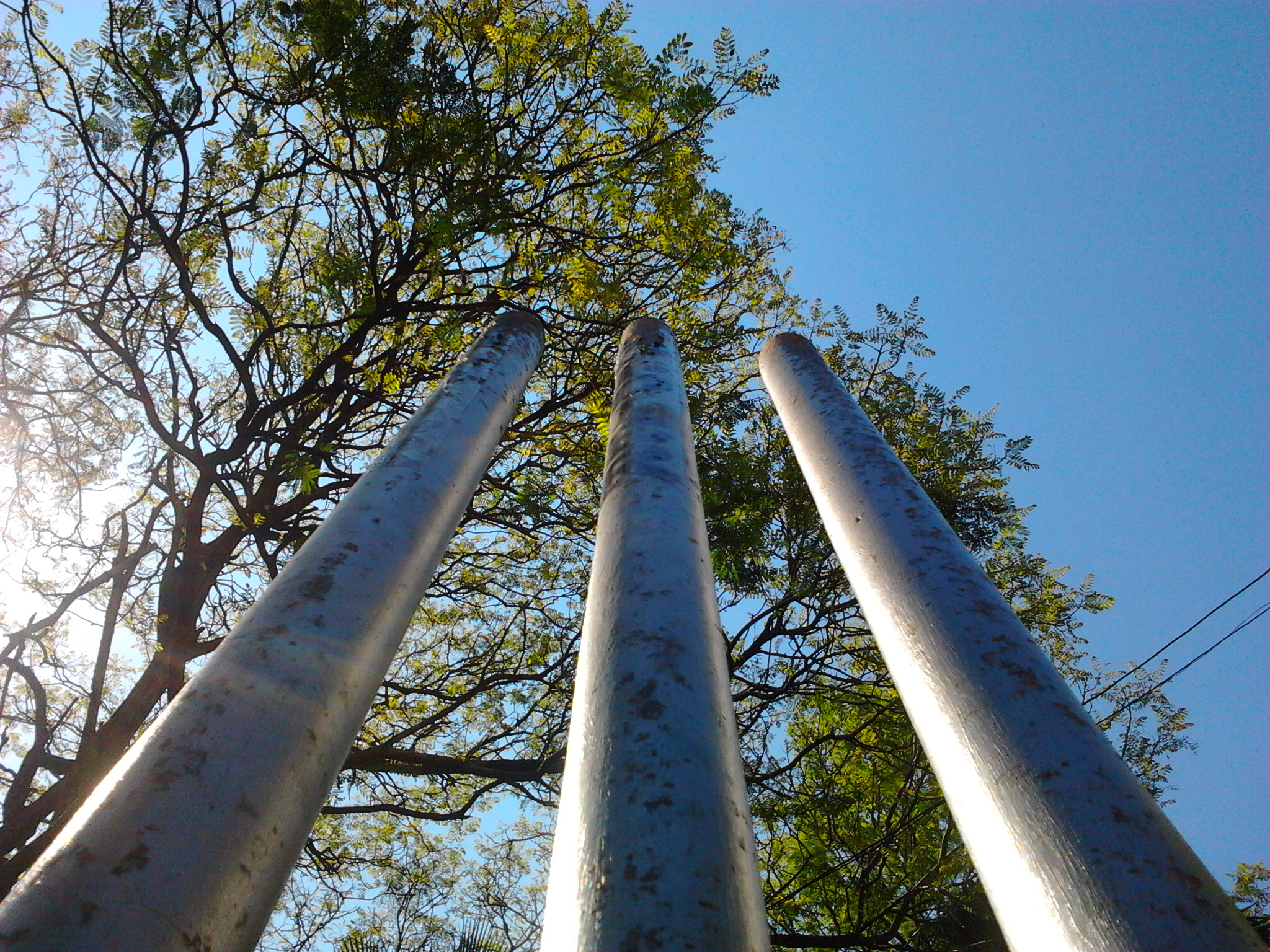 Photoed using Samsung Wave 525.